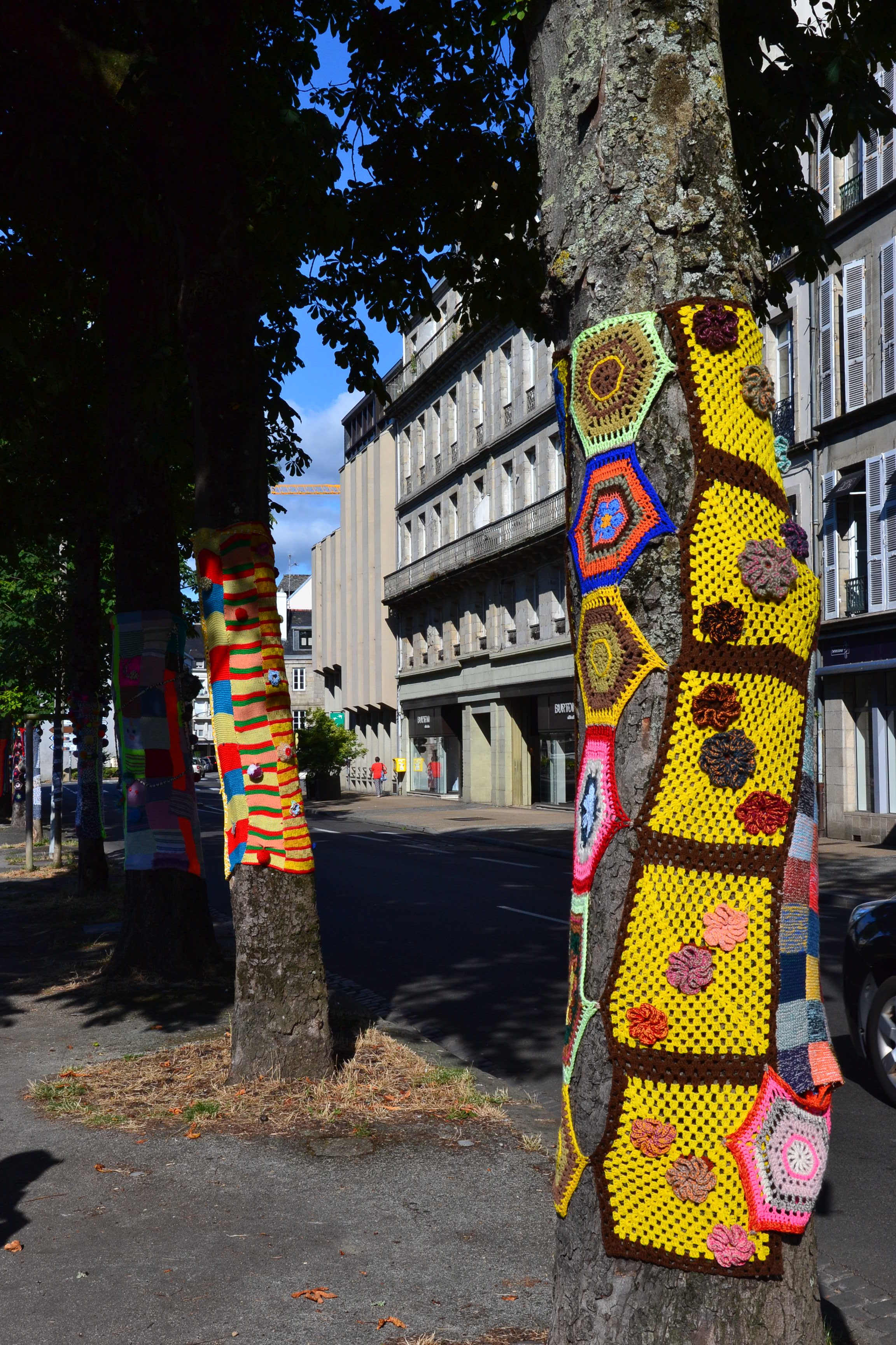 Yarn bombing on the Boulevard Amiral de Kerguélen, Quimper, Brittany, France, July 2018